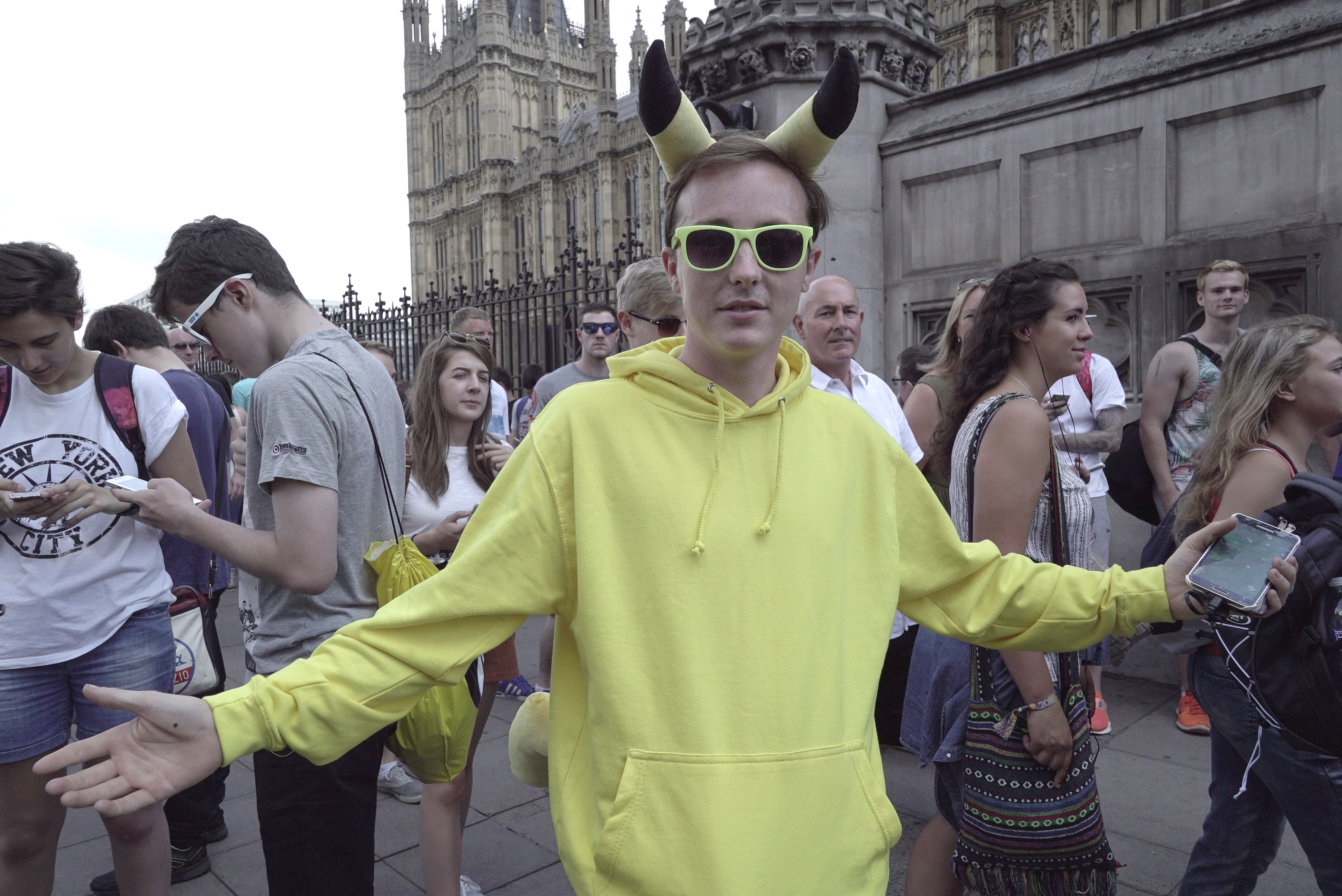 Participants in the Pokémon GO public event in London